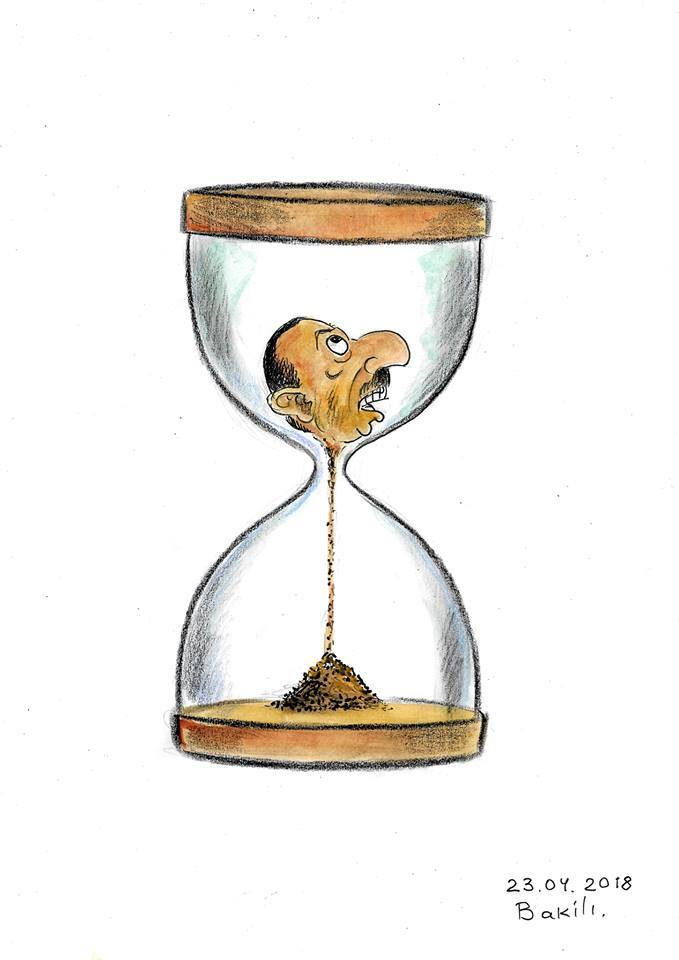 Hourglasses Ilham Aliyev